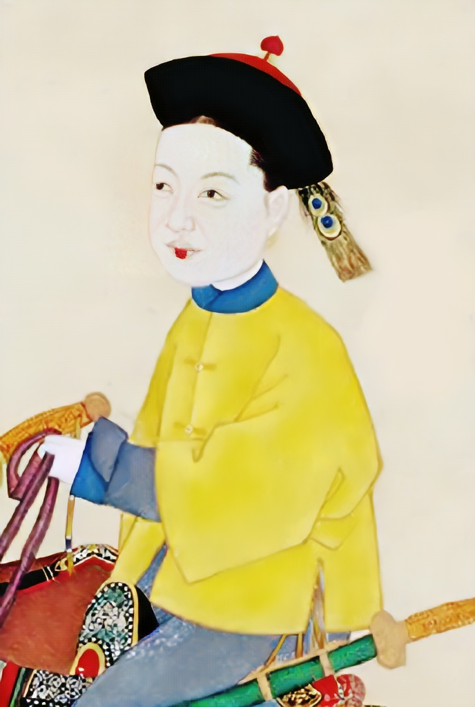 Imperial Consort Ying